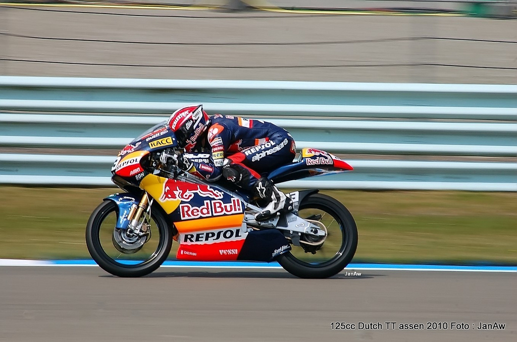 Marc Márquez at 2010 Dutch TT Assen